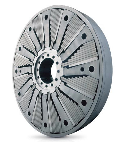 The Geislinger Coupling is a torsional elastic, high-damping steel spring coupling with hydrodynamic damping. High reliability, long intervals between overhauls, and low life-cycle cost are the main advantages. Geislinger couplings are ideal for all types and sizes of machinery, especially diesel and gas engines.